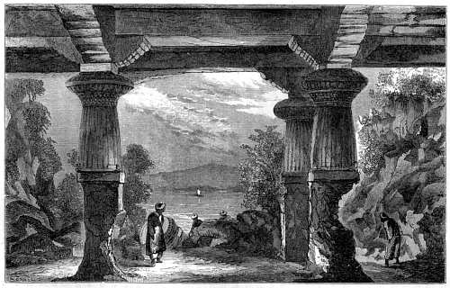 Entrance to the cave on Elephanta